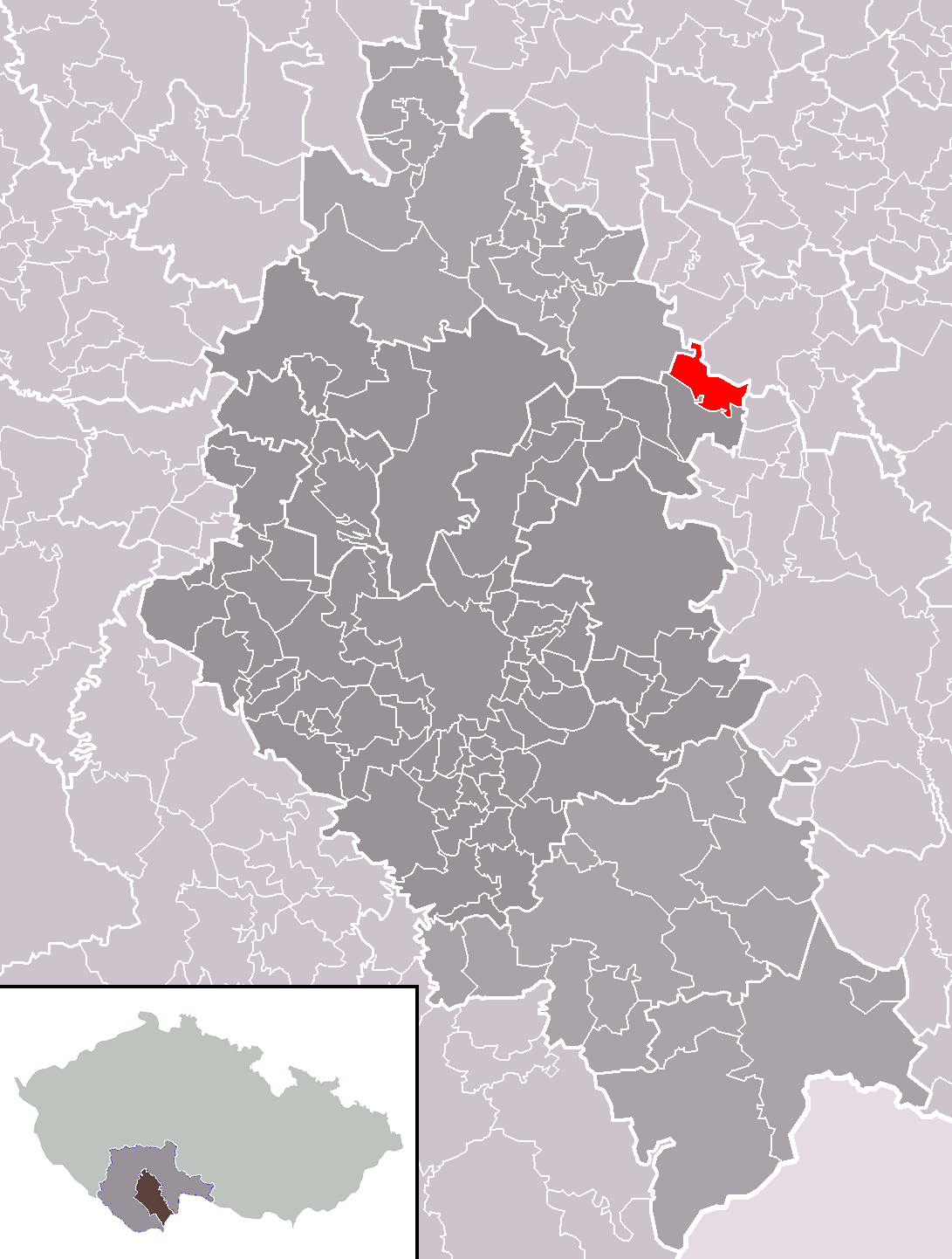 Location of Bošilec municipality within České Budějovice District and administrative area of České Budějovice as a Municipality with Extended Competence.